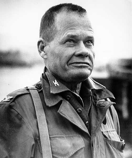 Chesty Puller, United States Marine officer, in November 1950, during the Korean War.